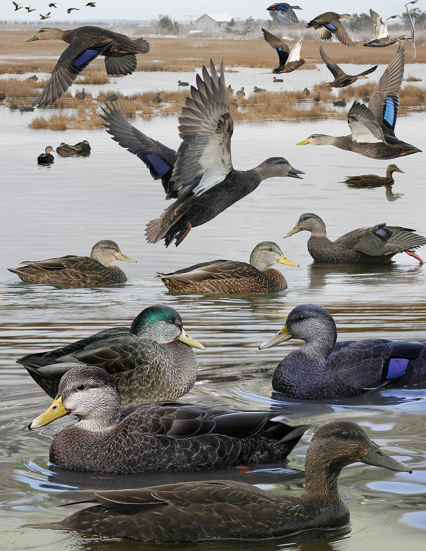 Black duck From The Crossley ID Guide Eastern Birds